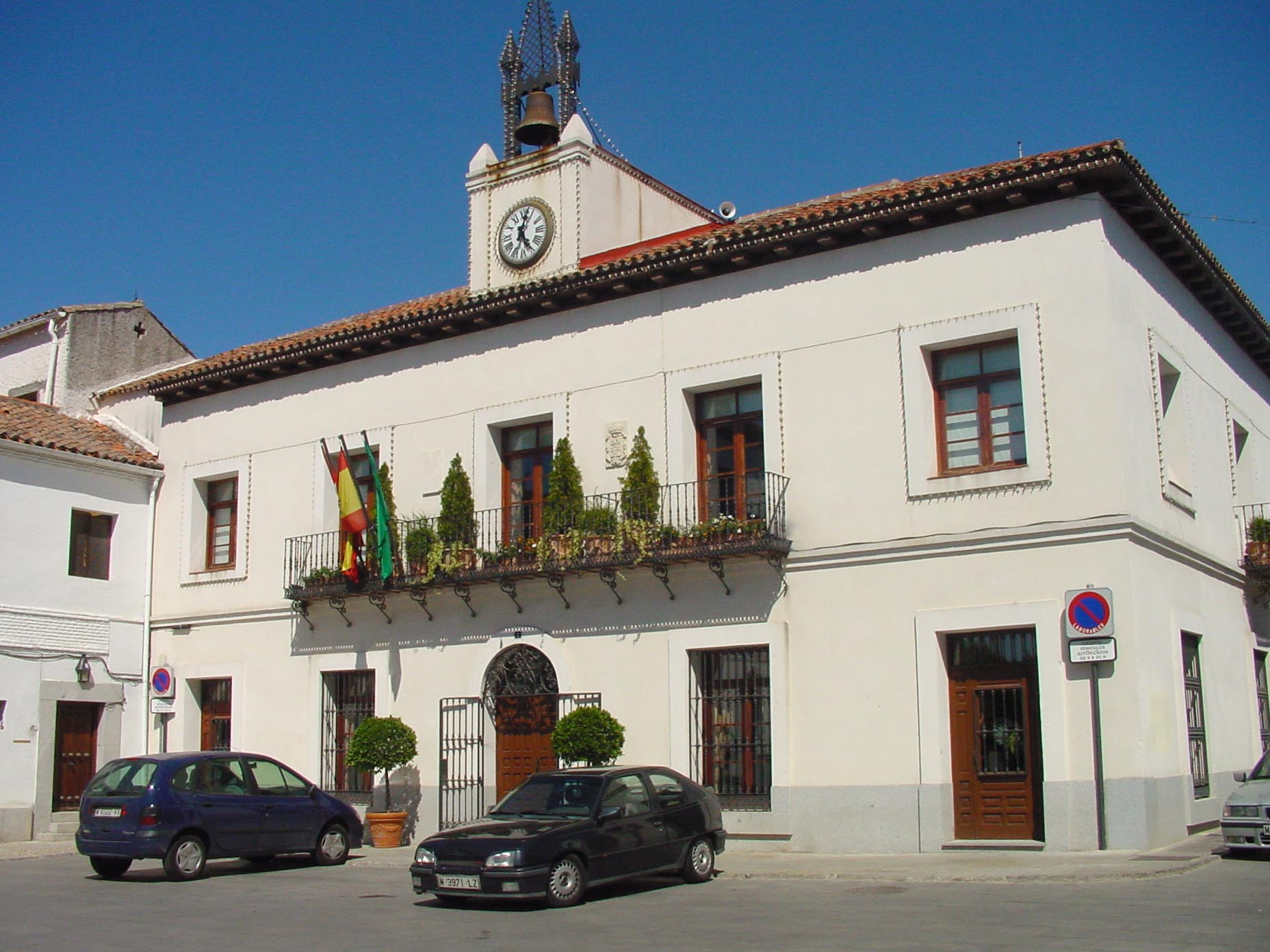 City hall of Villaviciosa de Odón, a suburb of Madrid